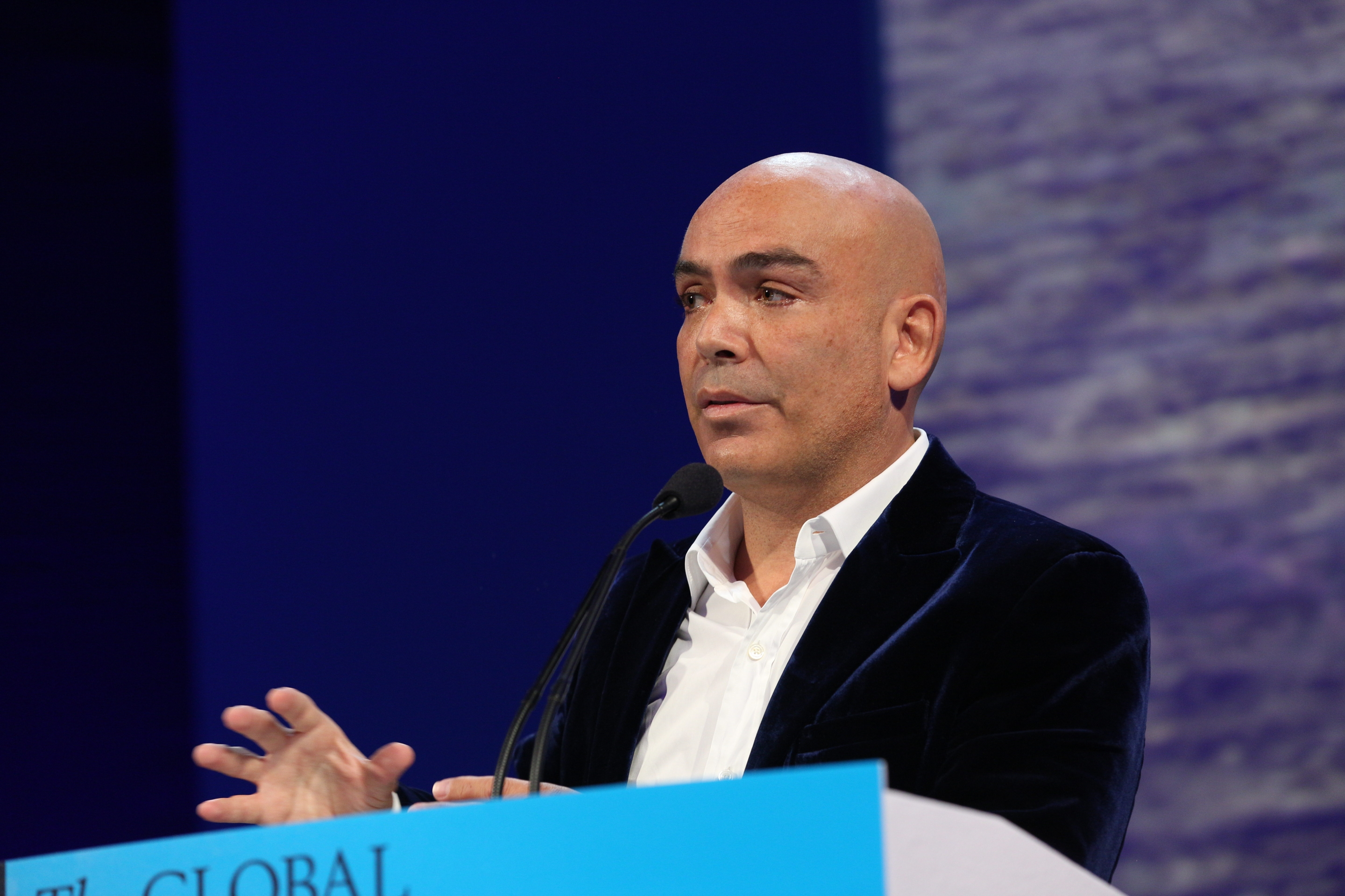 WTTC Global Summit 2016 World Travel & Tourism Council Flickr images